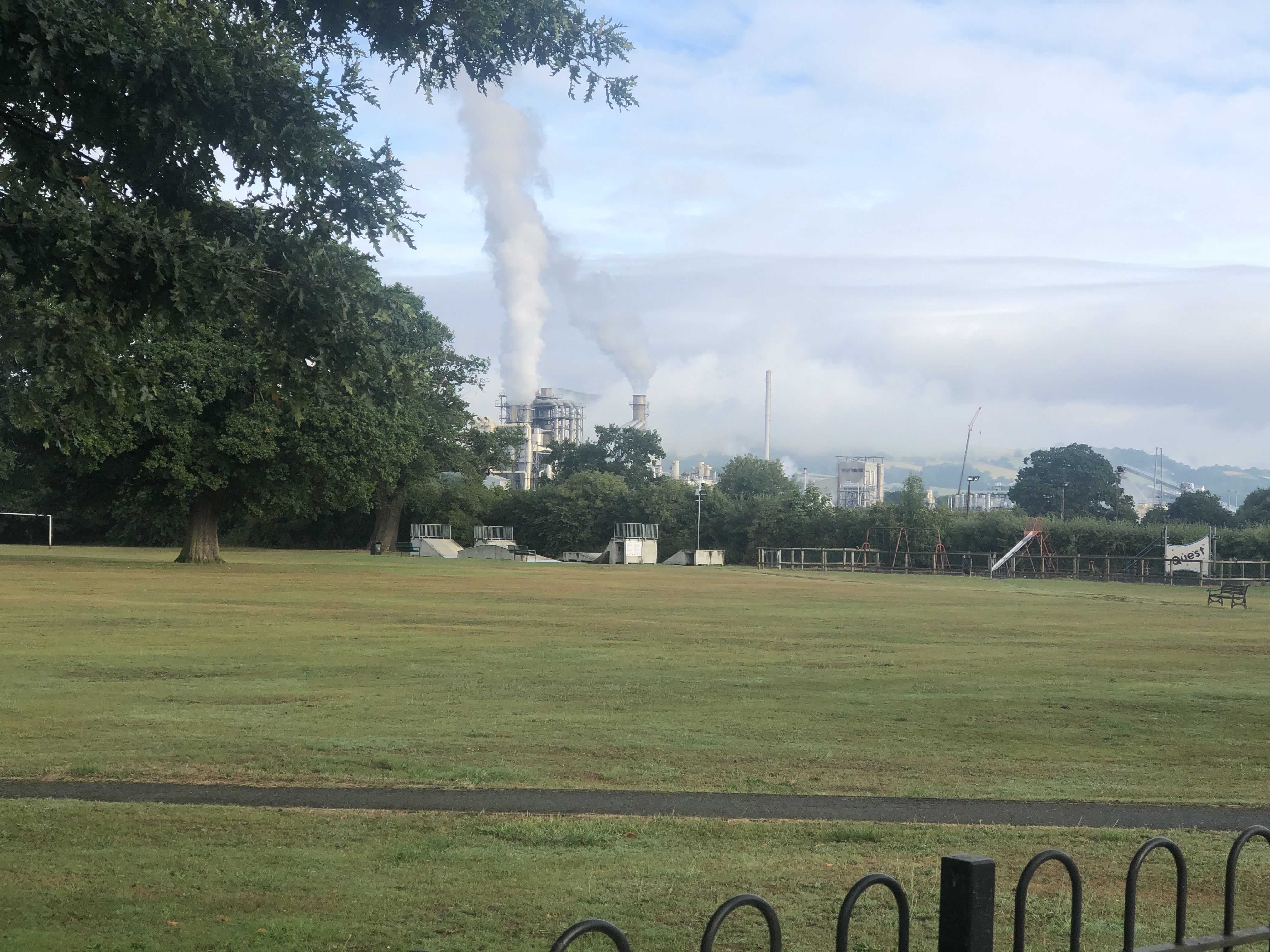 A view of the Kronospan plant in Chirk, Wales. Taken from